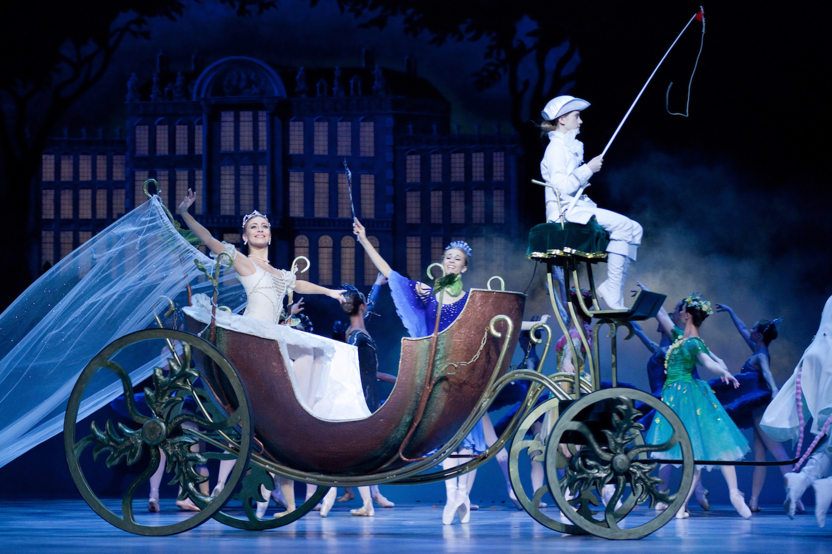 "Cinderella" by Frederick Ashton, Polish National Ballet, dancers: Aleksandra Liashenko (Cinderella) & Anna Lorenc (Fairy Godmother)